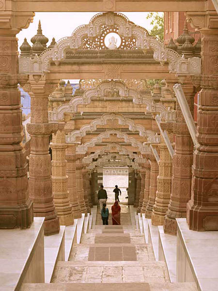 Osiyan Temple: view from the Temple looking down the stairs.